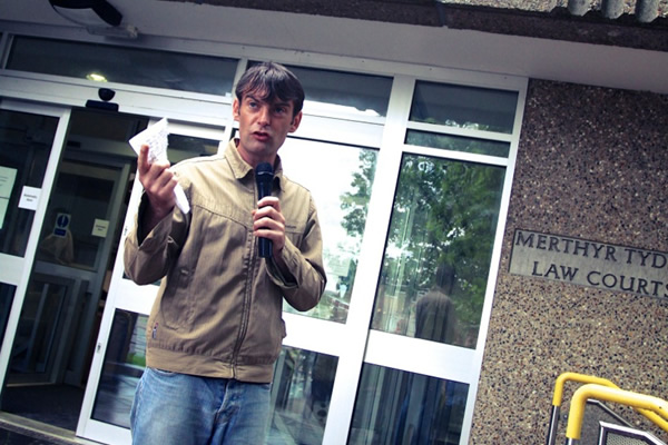 Jamie Bevan, Merthyr Tudful Magistrates Court, 13th August 2012